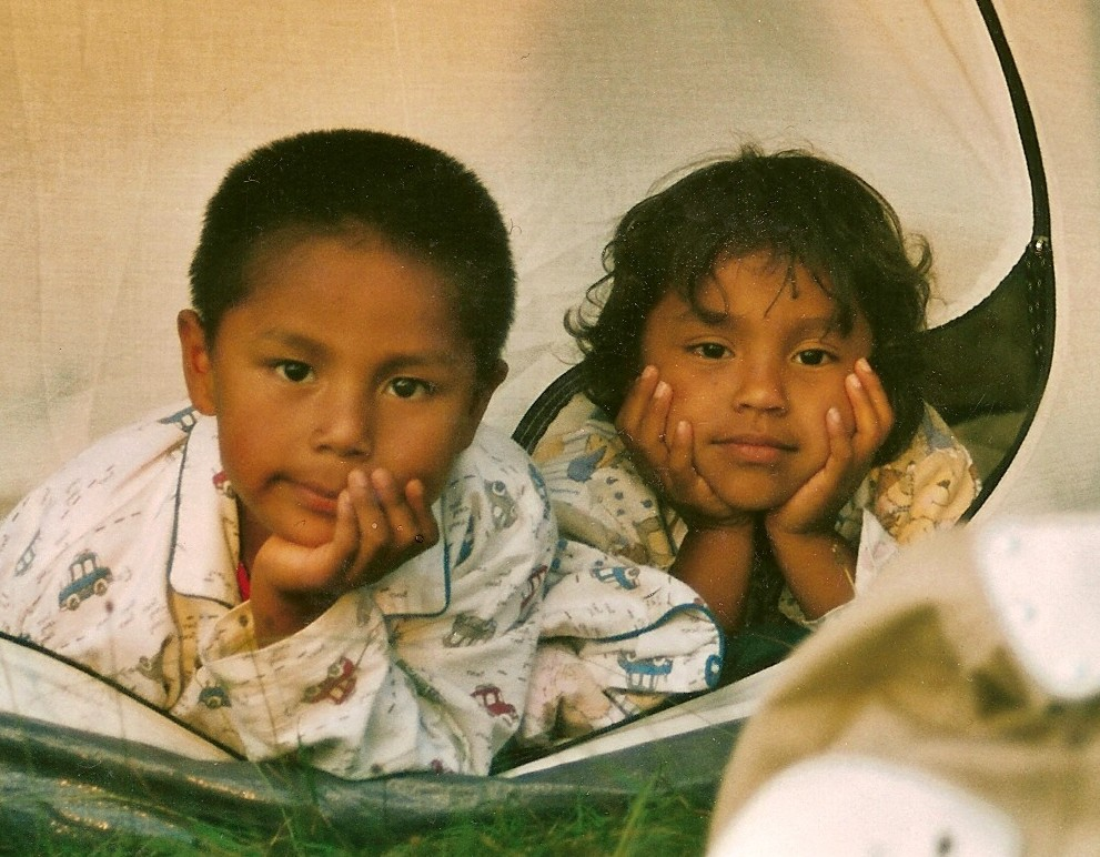 Ruben and Monica, non-identical twins.